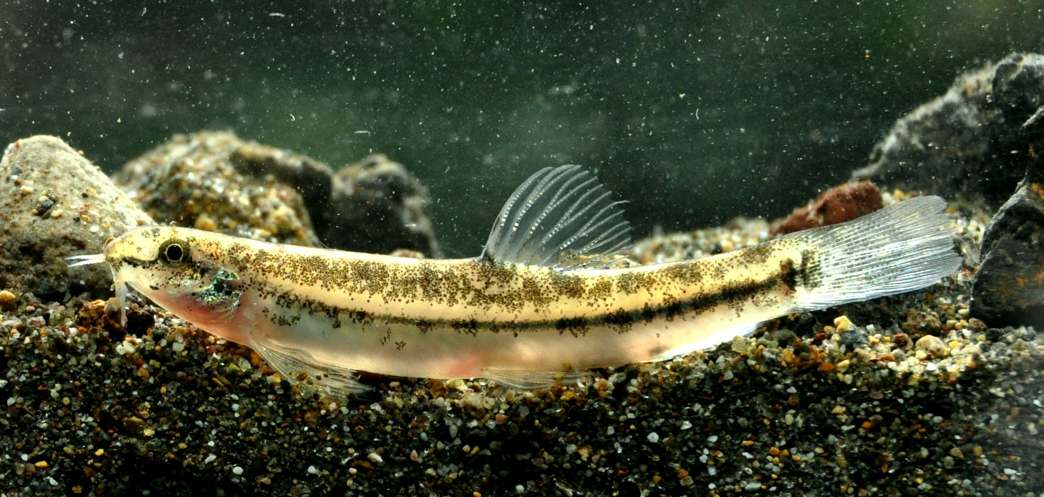 Lepidocephalichthys hasselti, ca 30 mm SL. From Banyumas, Central Java, Indonesia.